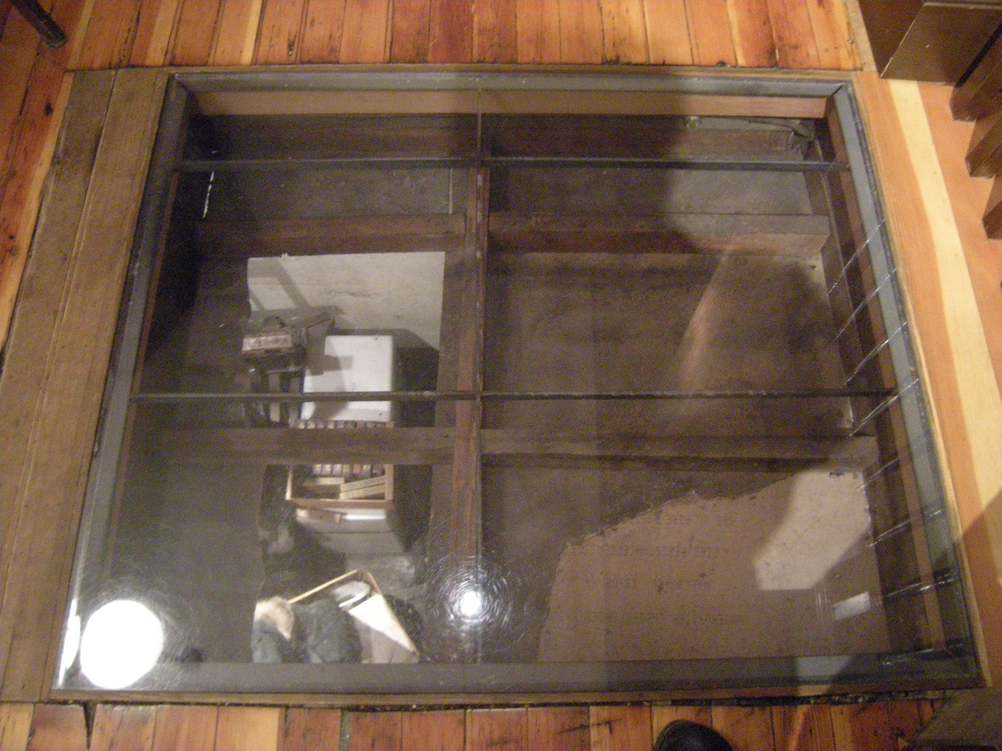 Cutaway in the floor of the lobby of the Panama Hotel, Seattle, Washington, to the accidental time capsule of the basement, which had remained untouched for decades after the evacuation of the Japanese-Americans to the camps during World War II. The building is on the National Register of Historic Places